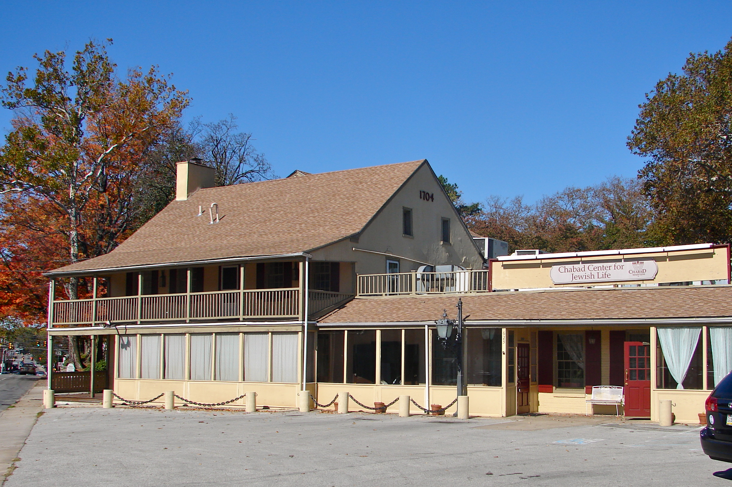 General Wayne Inn on the NRHP since January 1, 1976. At 625 Montgomery Avenue, Merion, Montgomery County, Pennsylvania